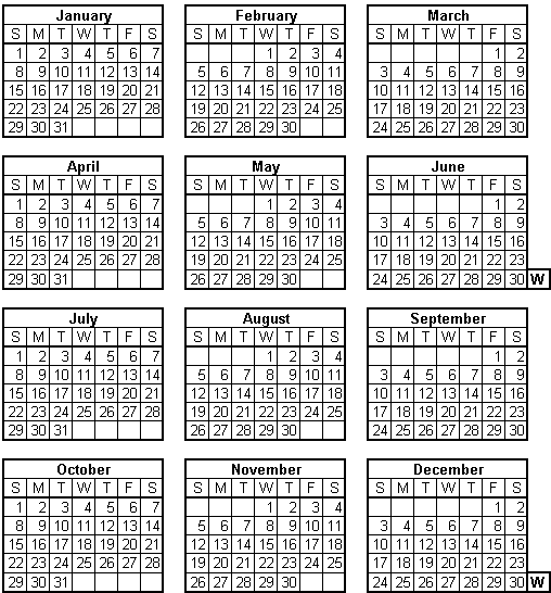 I created this file myself, and release it to public domain.